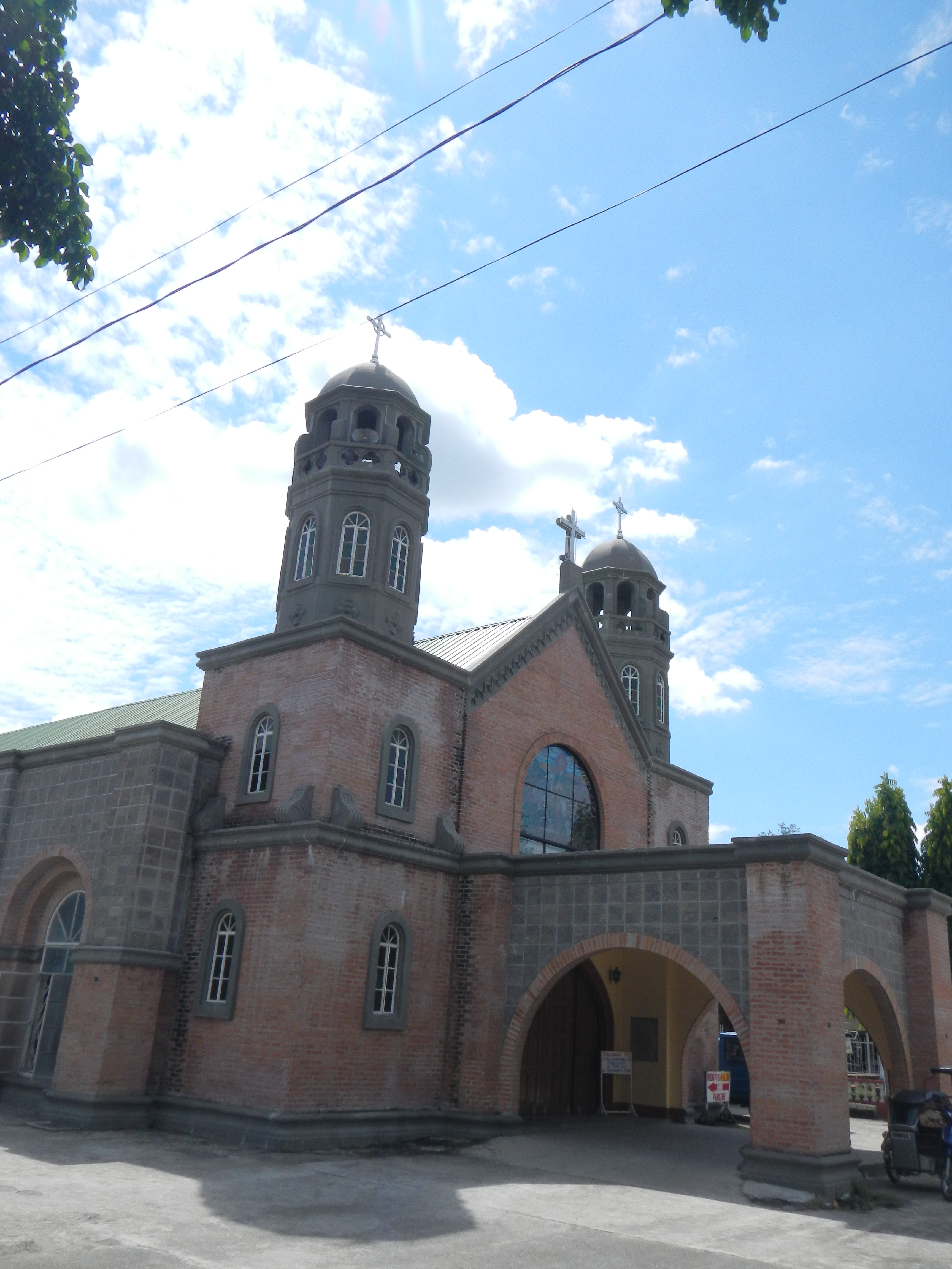 San Isidro Labrador Church, Municipality of San Isidro San Isidro, Nueva Ecija[1]